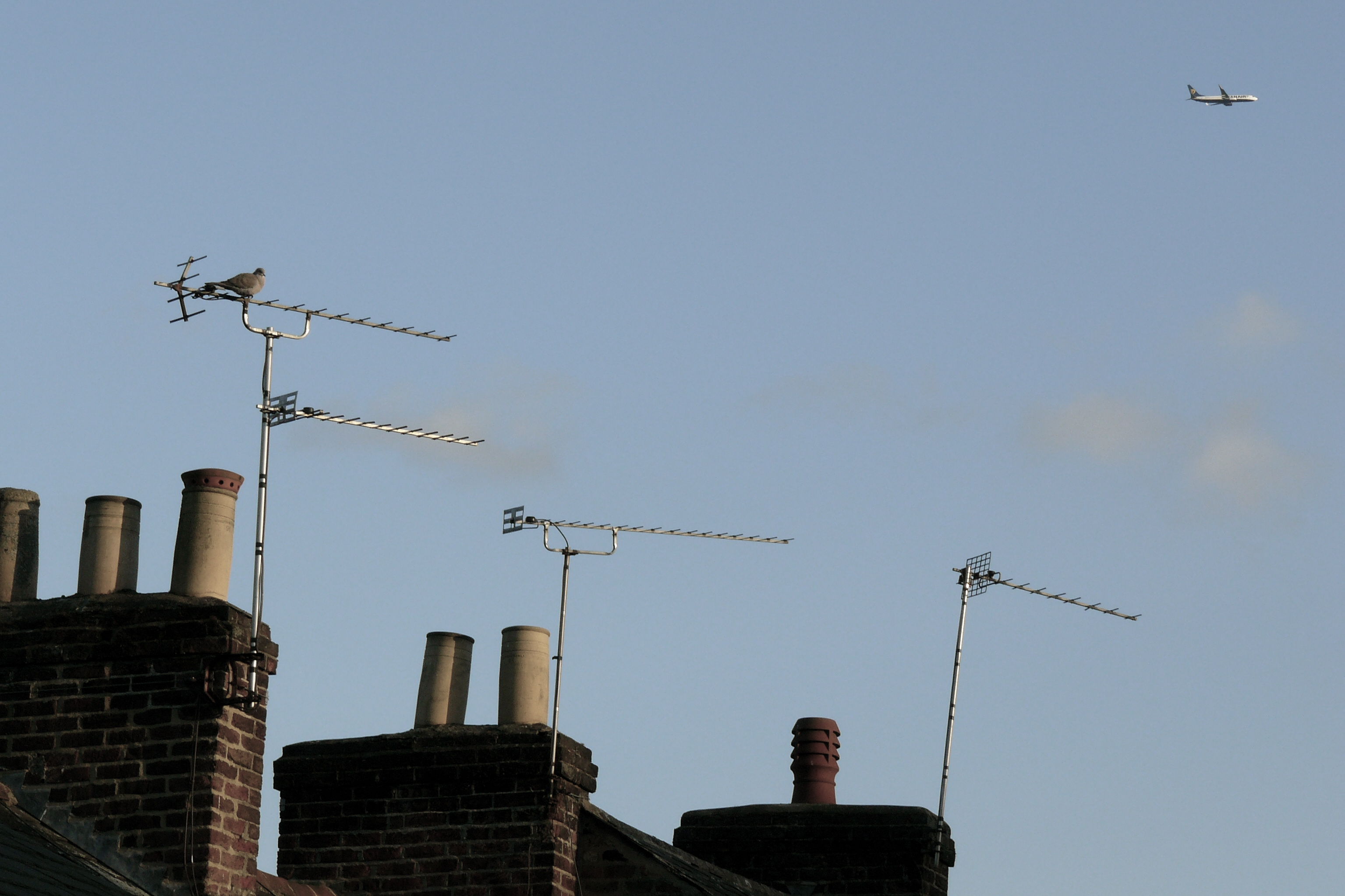 Victorian Terrace Houses & Ryanair.